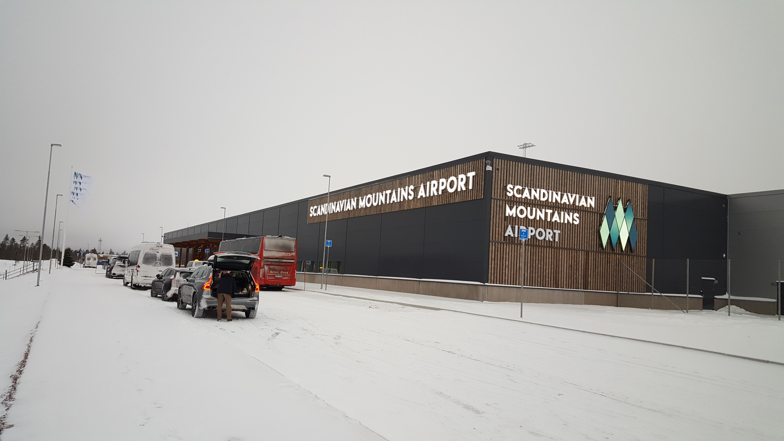 Sälen airport, terminal building